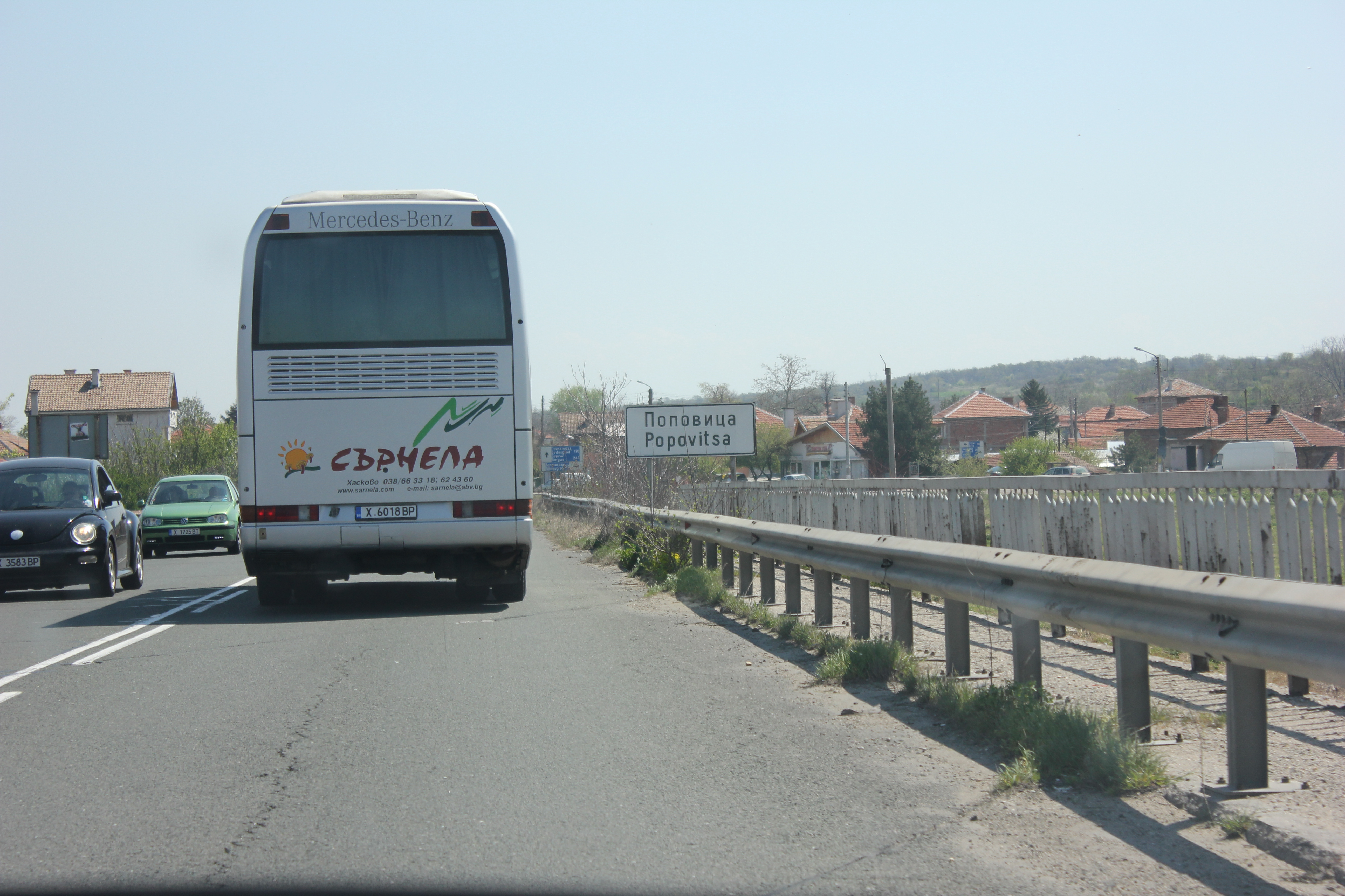 Popovitsa entrance bridge over Maritsa River from Plovdiv